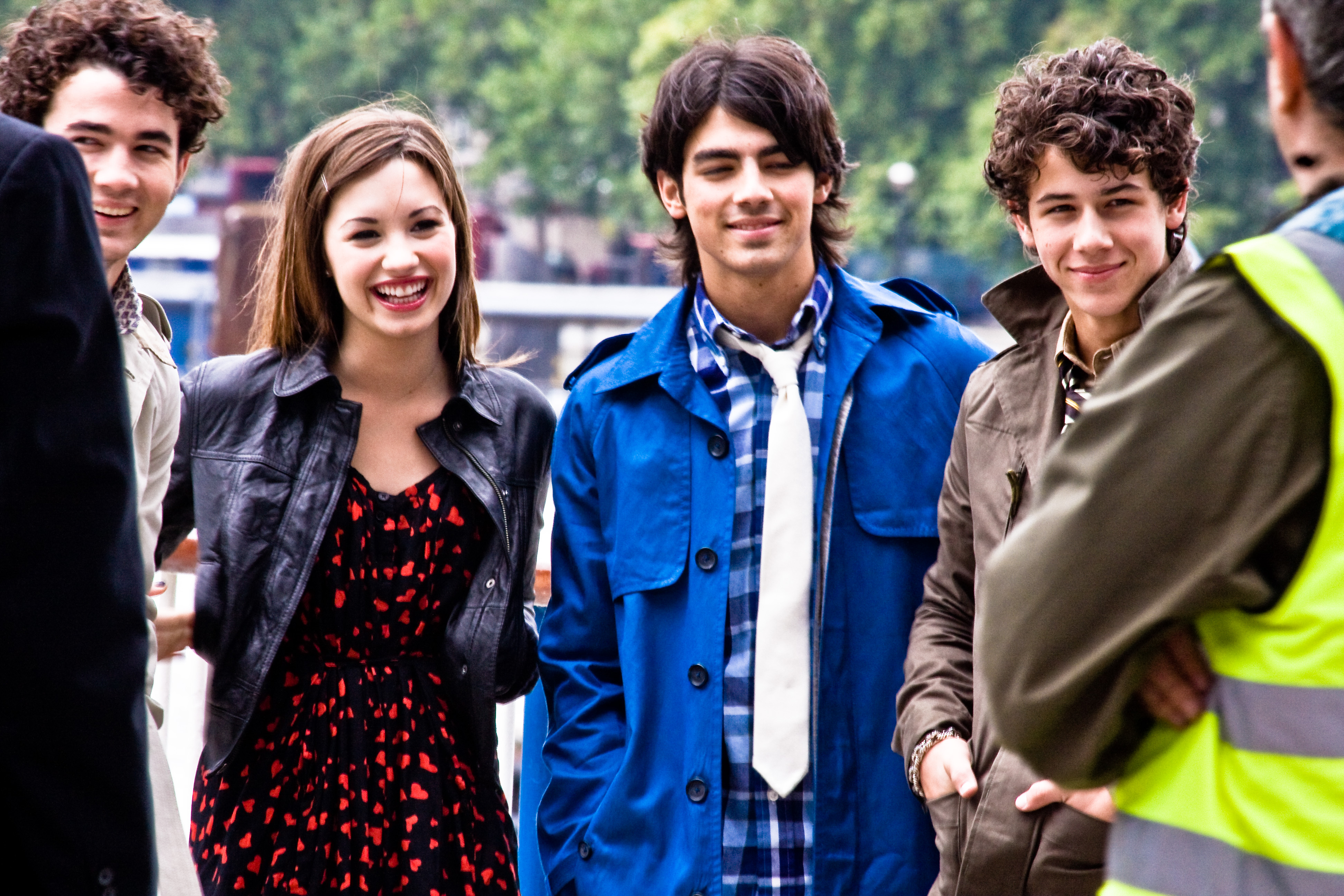 The Jonas Brothers with Demi Lovato, photo shoot on the South Bank, London.